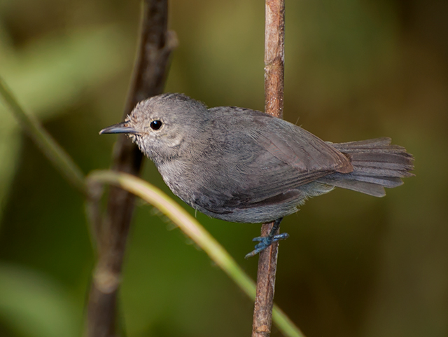 Unicolor antwren (Myrmotherula unicolor)